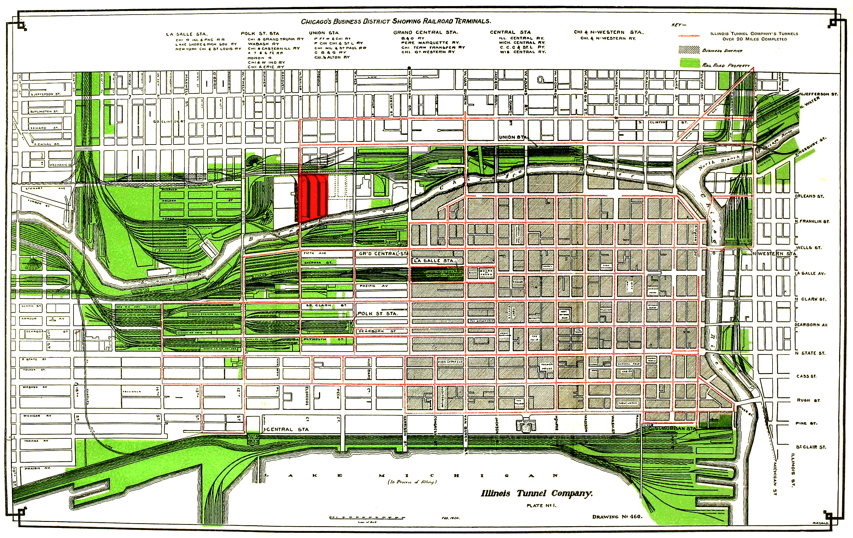 Title at top of map: "Chicago's Business District Showing Railroad Terminals" Key: Red lines - "Illinois Tunnel Company's Tunnels - Over 20 Miles Completed"; Hatched area - "Business District"; Green - "Rail Road Property". Title at bottom of map: "Illinois Tunnel Company - Drawing No. 460". Note that the large red blotch has no explanation. Neither the river crossing adjacent to this blotch nor the tunnels parallel to the river north toward Union Station were ever completed.